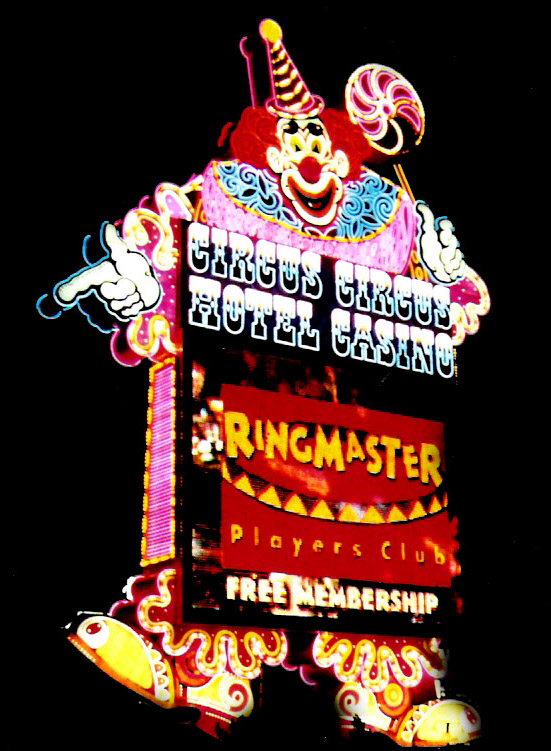 Circus Circus Lucky The Clown sign